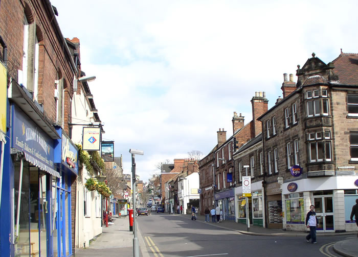 View of King Street Belper